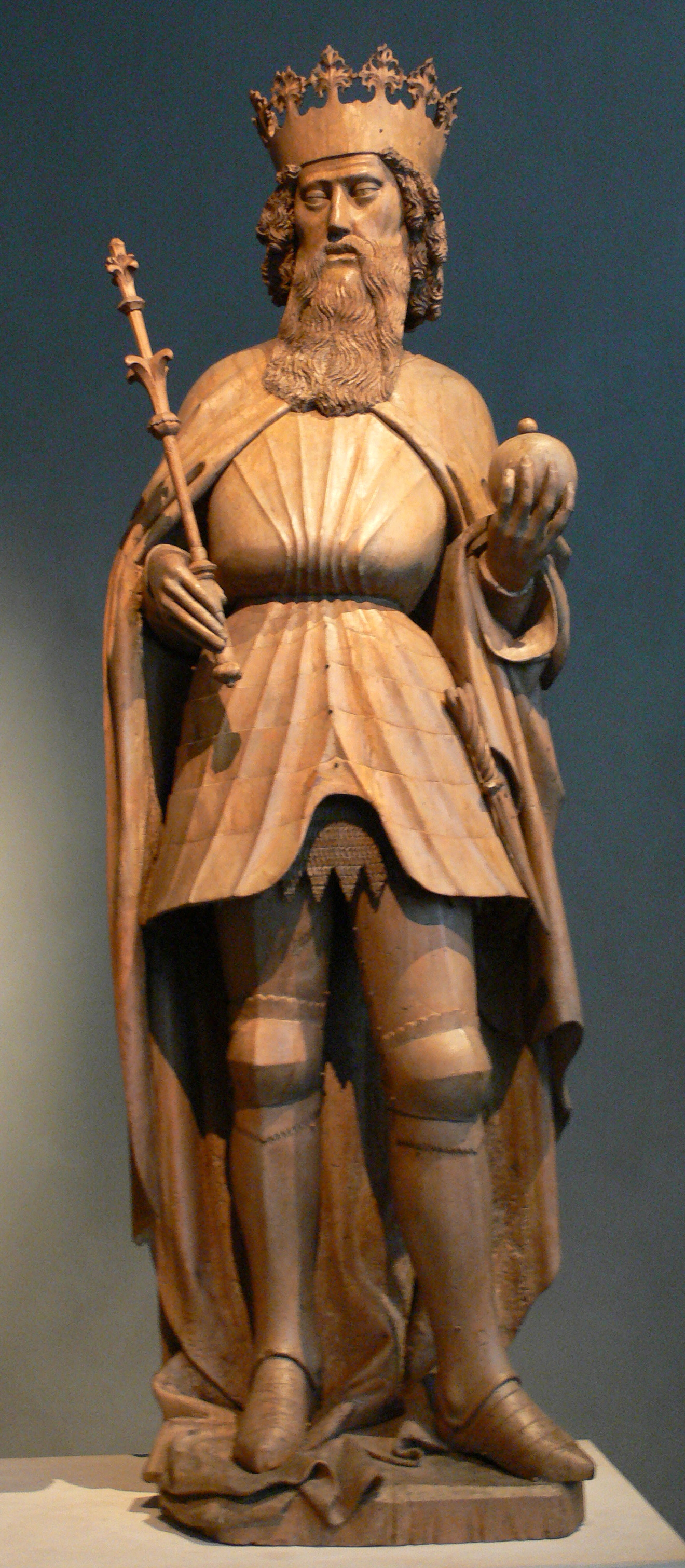 From the Freising Cathedral Altarpiece of 1443